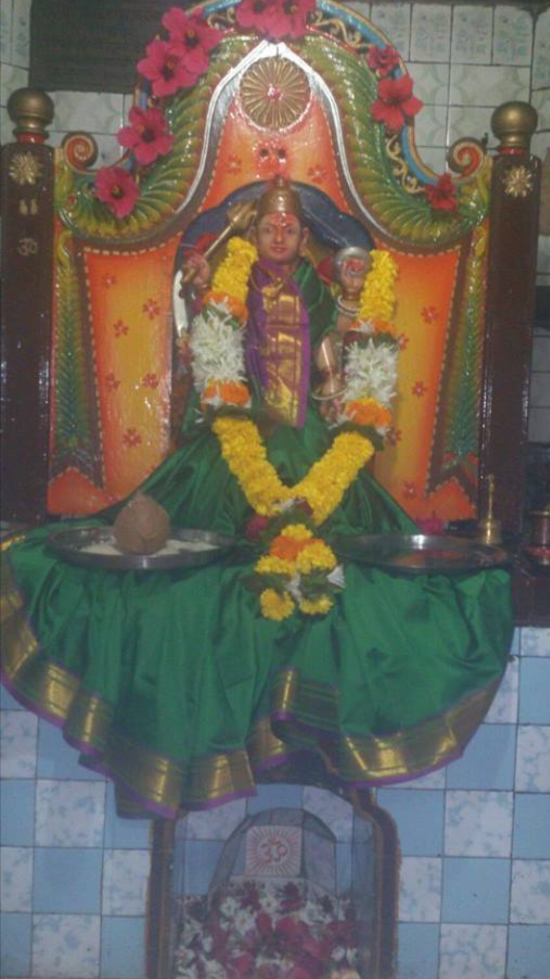 aryadurga mata.